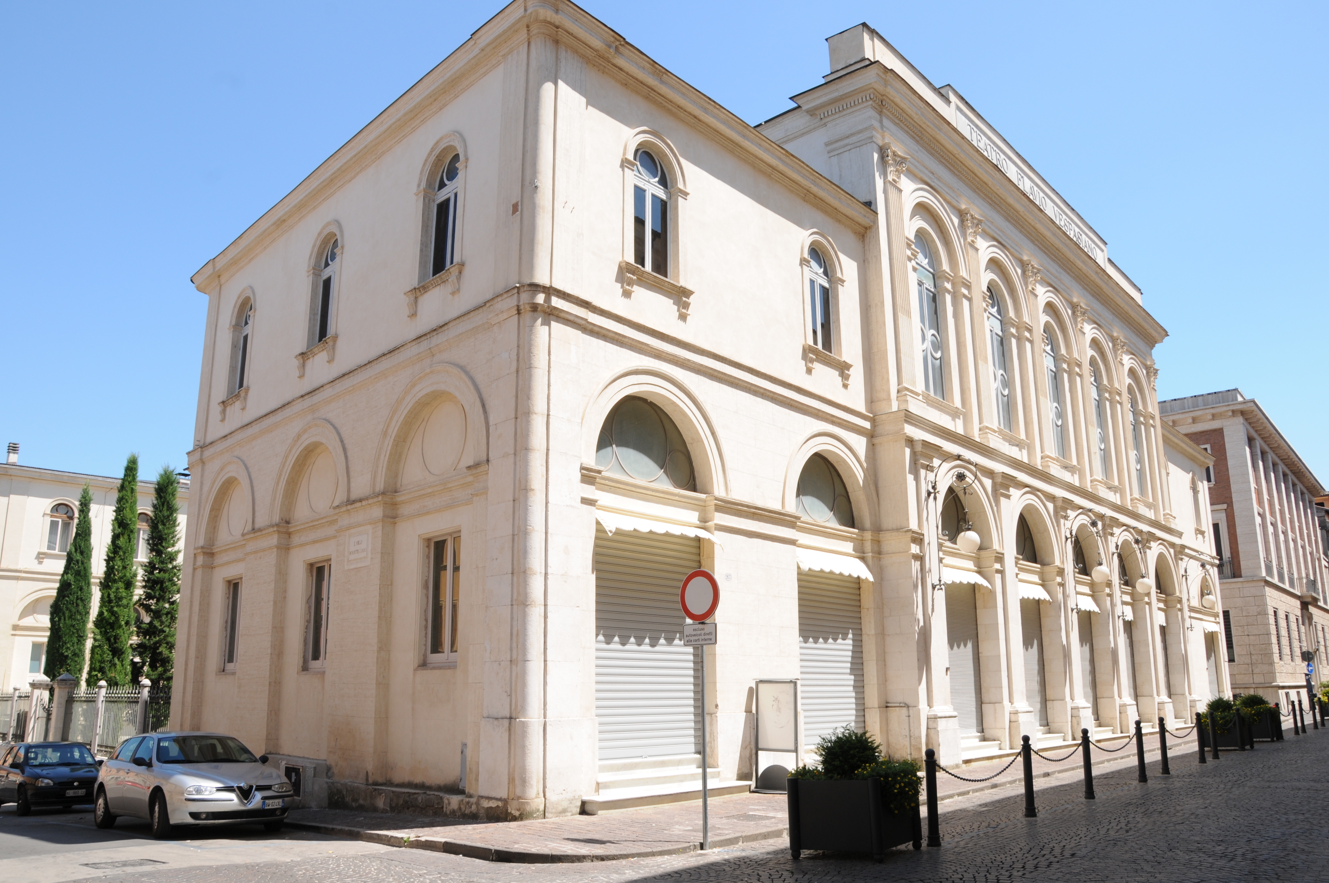 Flavio Vespasiano Theatre - Rieti (Lazio, Italy)